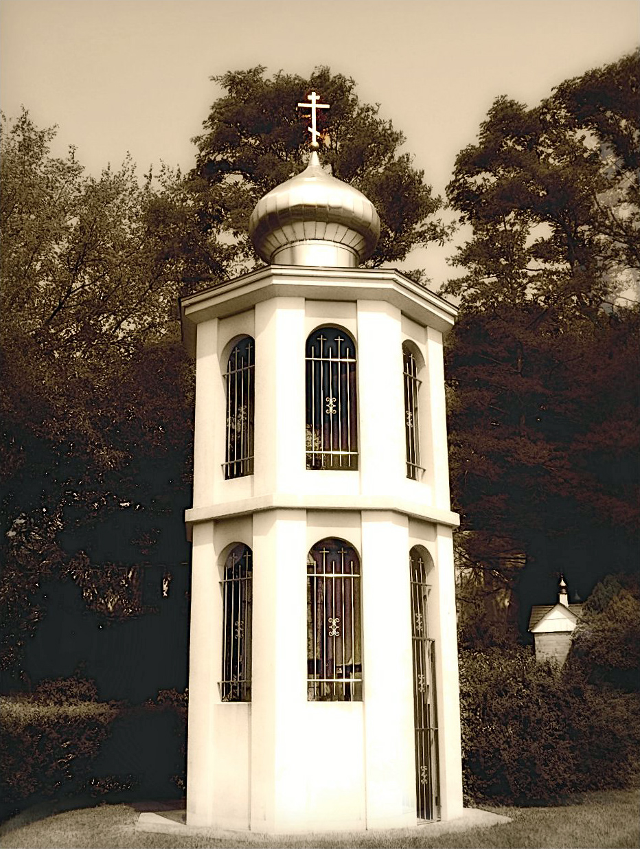 Bell Tower in Nanuet, New York, USA.